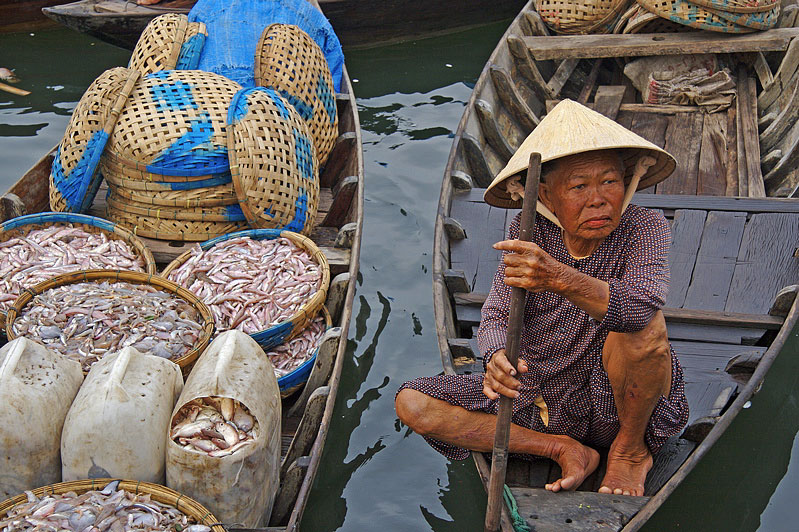 Declared a World Heritage Site by UNESCO, Hoi An was once the major Vietnamese trading centre for silk, porcelain, pepper, cinnamon and medicinal plants. When the river eventually filled with silt the trading moved further north to Danang. The town's distinctive architecture remains intact despite the wars of the 19th and 20th centuries. It is one of Vietnam's most picturesque towns. Some of the streets of Hoi An are like time capsules from centuries past. As a busy trading centre in the 16th and 17th centuries it was a hub for seafarers from China, Japan, Portugal and Holland. Wandering through the streets it is easy to spot features reflecting this multinational past. While the whole town sleeps, the fishermen are hard at work, catching delicious seafood that will be served freshly at the city's restaurants and markets. It is a unique experience to visit the Hoi An fish market when the fishermen are bringing their night's catch to shore. From daybreak, the fishing boats pull up to the dock unloading the fish they’ve caught the previous night. Conical hats are everywhere. For the next few hours the dock takes on a frenzied atmosphere as locals descend on the market, after the freshest fish and the best price.